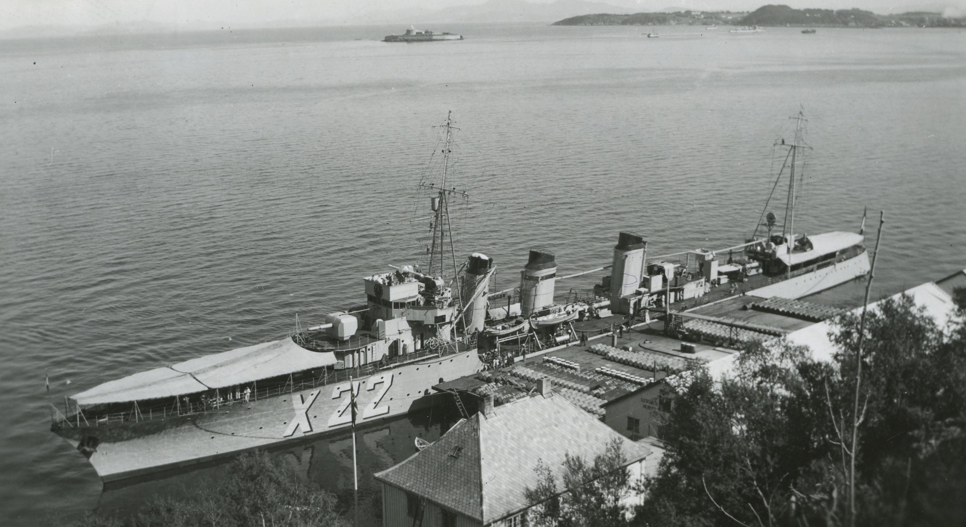 French destroyer Léopard X22. The hull number X22 indicates photo was most likely taken in 1939. [1]